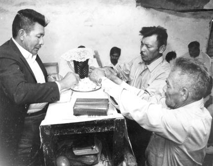 Caption: 1972. Preparing for communion service at Mision Laishi, Chaco, Argentina. Citation: Mennonite Board of Missions. Photographs. Argentina, 1960's and 70's. IV-10-7.2 Box 1 folder 44, photo #121. Mennonite Church USA Archives - Goshen. Goshen, Indiana.